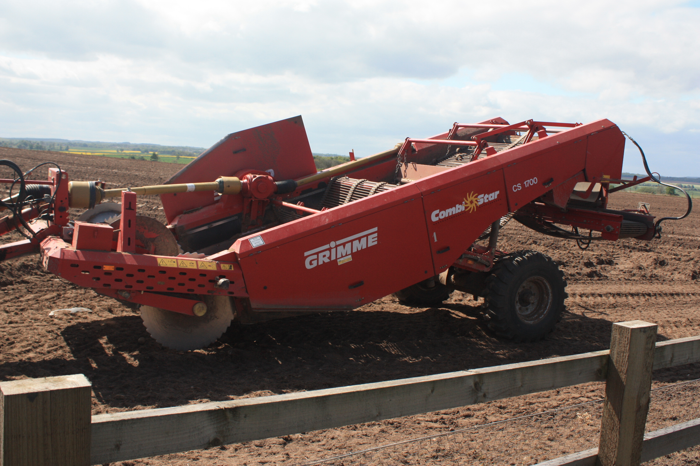 A trailed Grimme (Combi Star) CS 1700 destoner machine (stone and clod separator) preparing carrot beds on a field at Blyth, Nottinghamshire, England